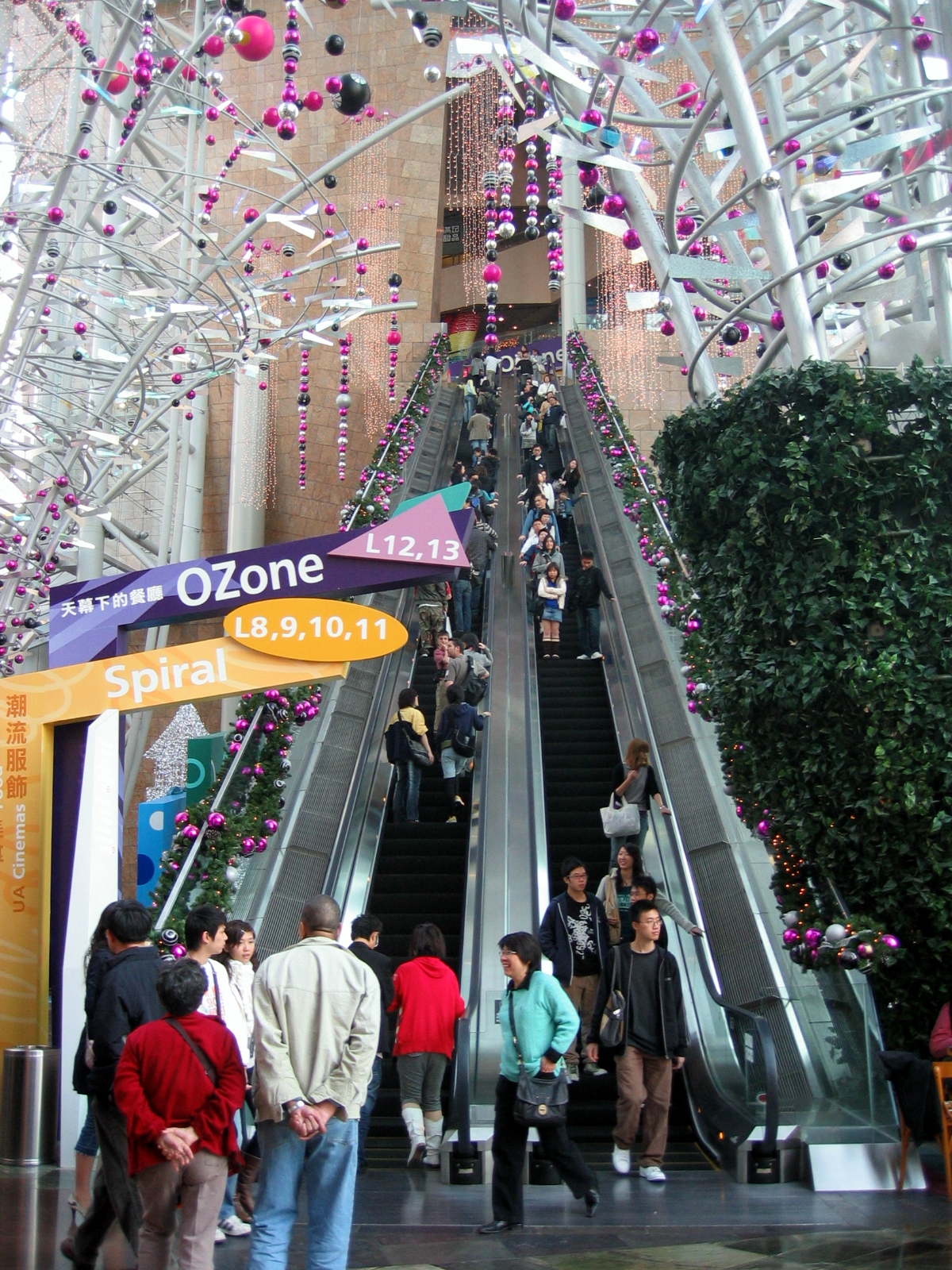 HK Langham Place Express Elevator